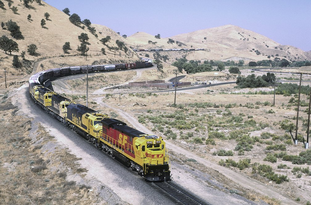 Downgrade into Caliente, CA, August 1990